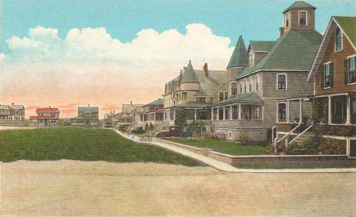 Ocean front, Ocean Park, Maine